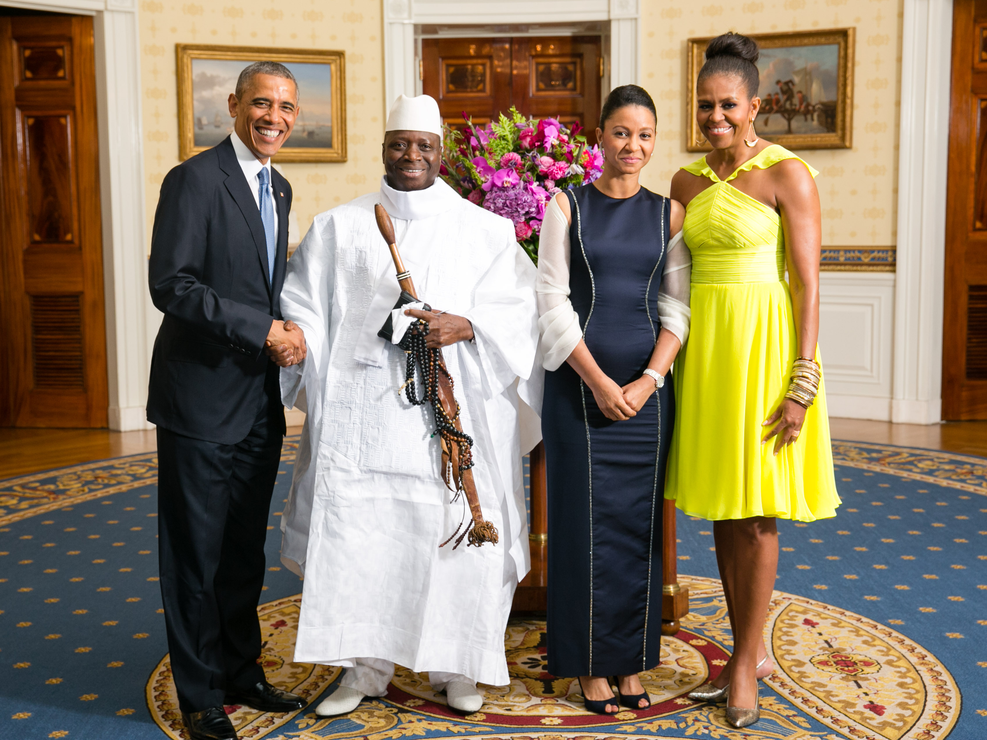 President Barack Obama and First Lady Michelle Obama greet His Excellency Yahya A.J.J. Jammeh, President of the Republic of The Gambia, and Mrs. Zineb Jammeh, in the Blue Room during a U.S.-Africa Leaders Summit dinner at the White House, Aug. 5, 2014. [Official White House Photo by Amanda Lucidon] This official White House photograph is in the public domain from a copyright perspective, so while restrictions such as personality or privacy rights may apply, in general, manipulations are allowed.